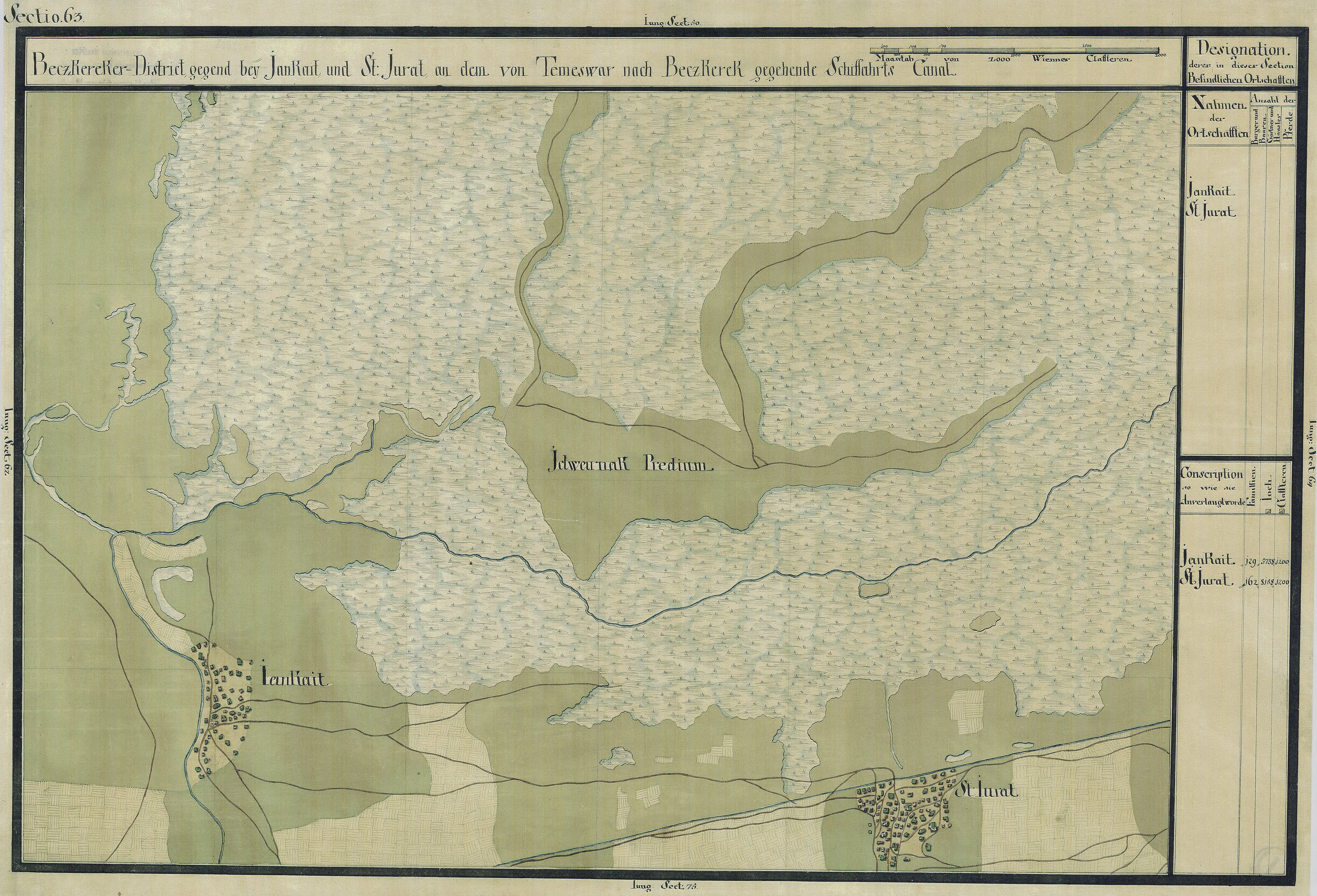 The Banat region in the cadastral maps: Josephinische Landesaufnahme, 1769-72. Josephinische Landaufnahme pg063